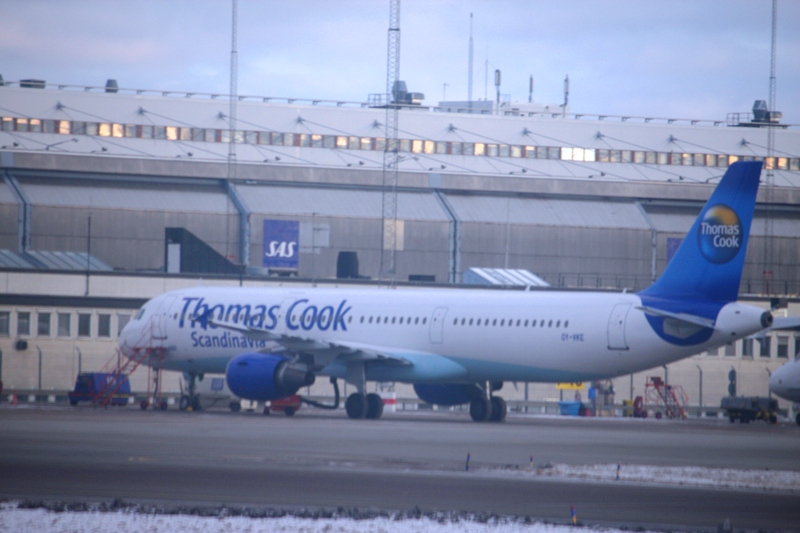 Thomas Cook Scandinavia Airbus A321